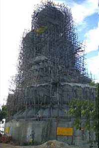 Phuket Giant Budha